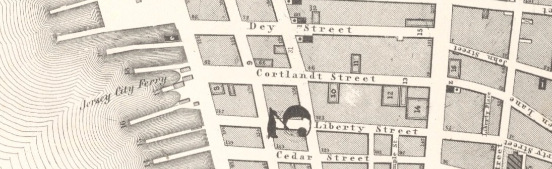 Title page and volume key from: Perris, William. Maps of the City of New-York. Volume 2. (New York: Perris & Browne, 1857)